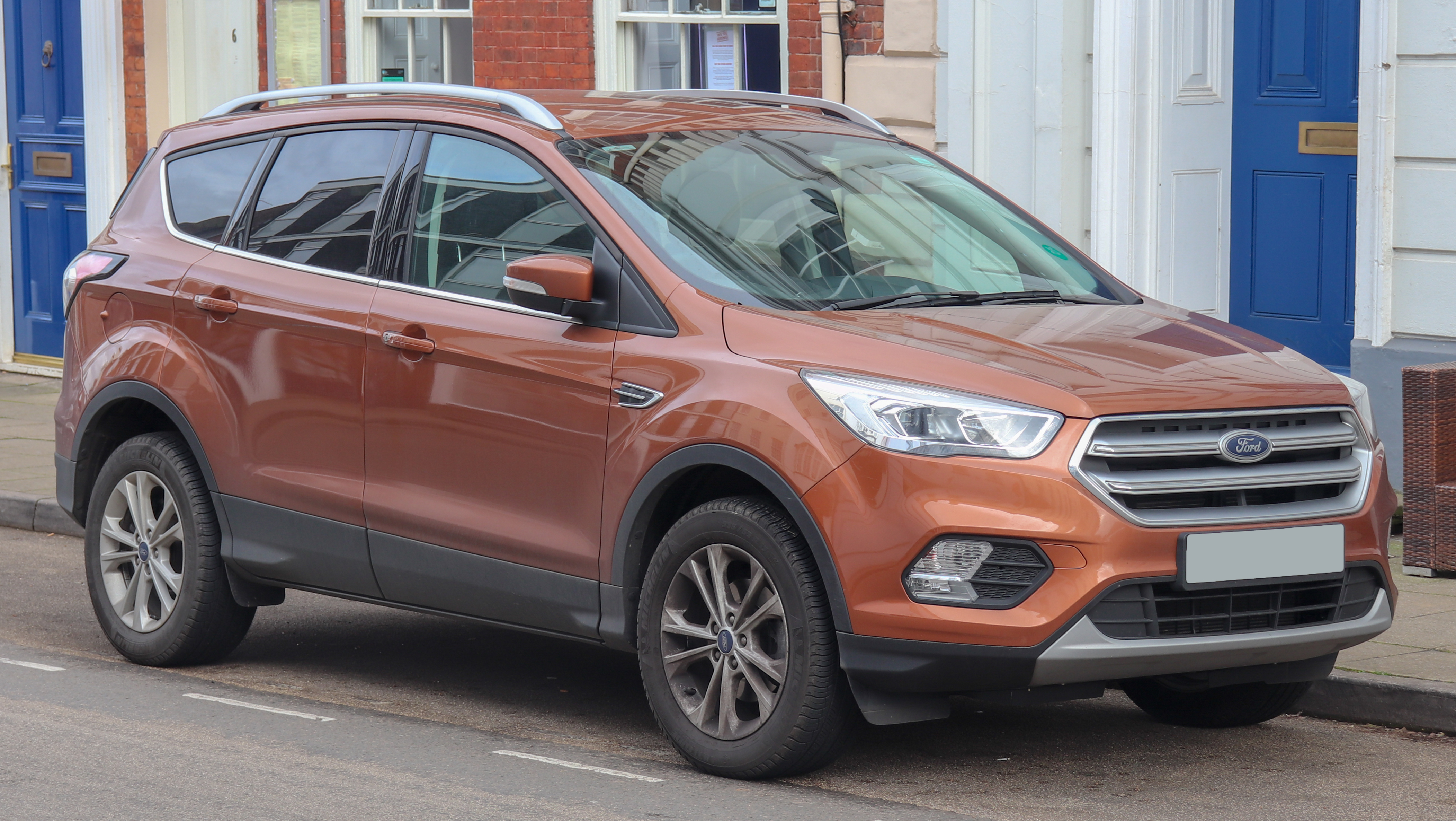 2017 Ford Kuga Titanium 1.5 Front Taken in Warwick